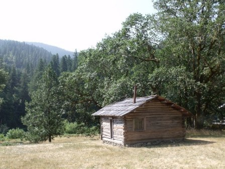 Zane Grey's cabin on the Rogue River near Galice, Oregon, United States.